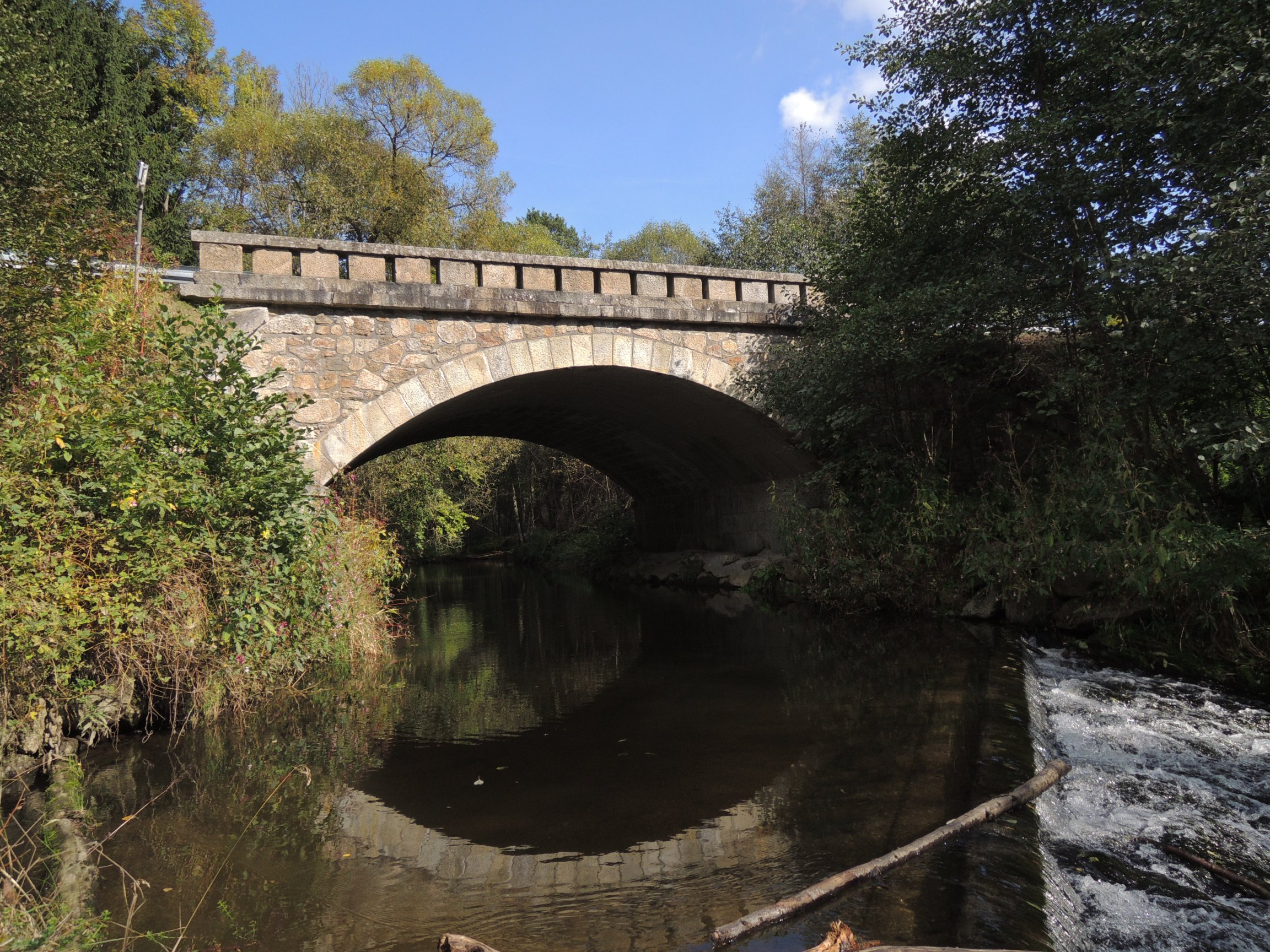 Linzerbrücke crossing river Steinerne Mühl at Haslach an der Mühl